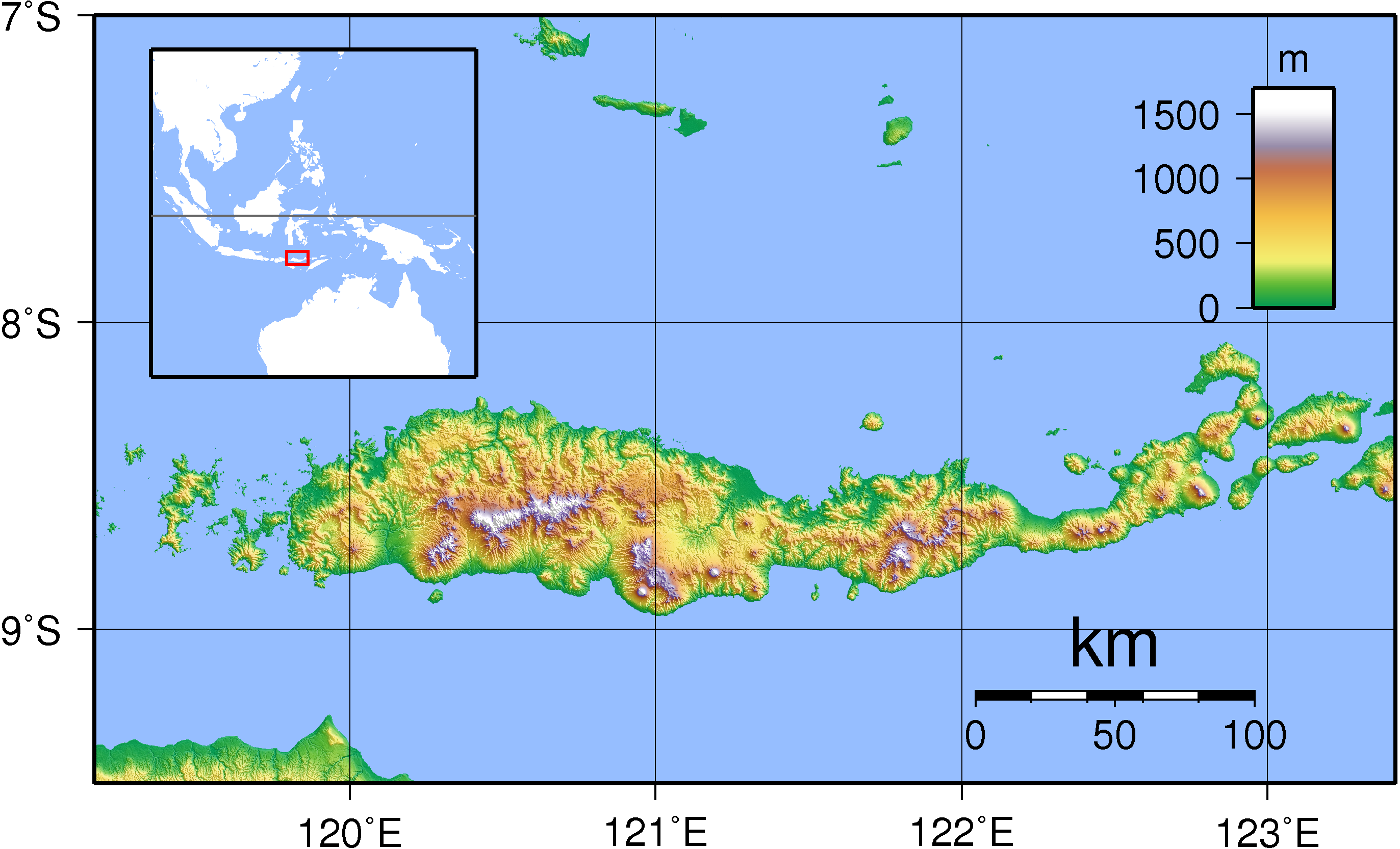 Topographic map of Flores, Indonesia. Created with GMT from SRTM data.